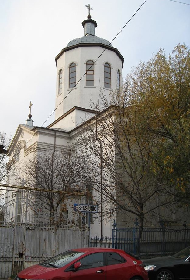 Bulgarian Orthodox church, Galați, Romania.